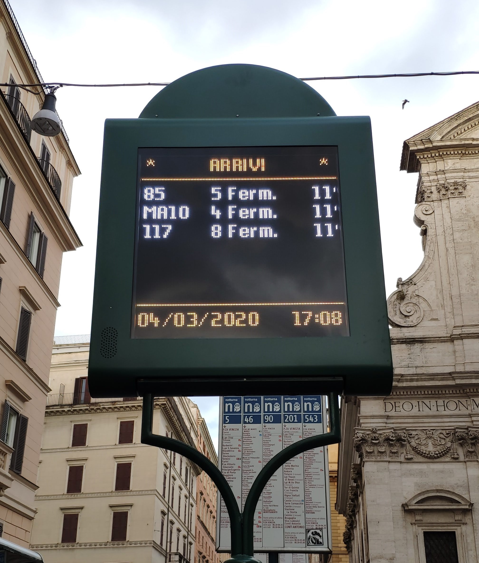 L.go Chigi electronic bus stop in Rome